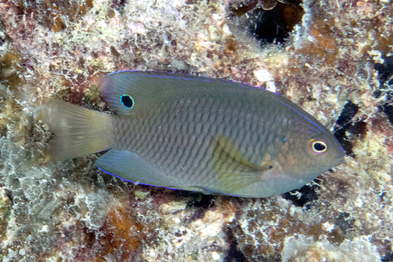 Una damisela oscura, Pomacentrus Adelus, en Ba, Fiji